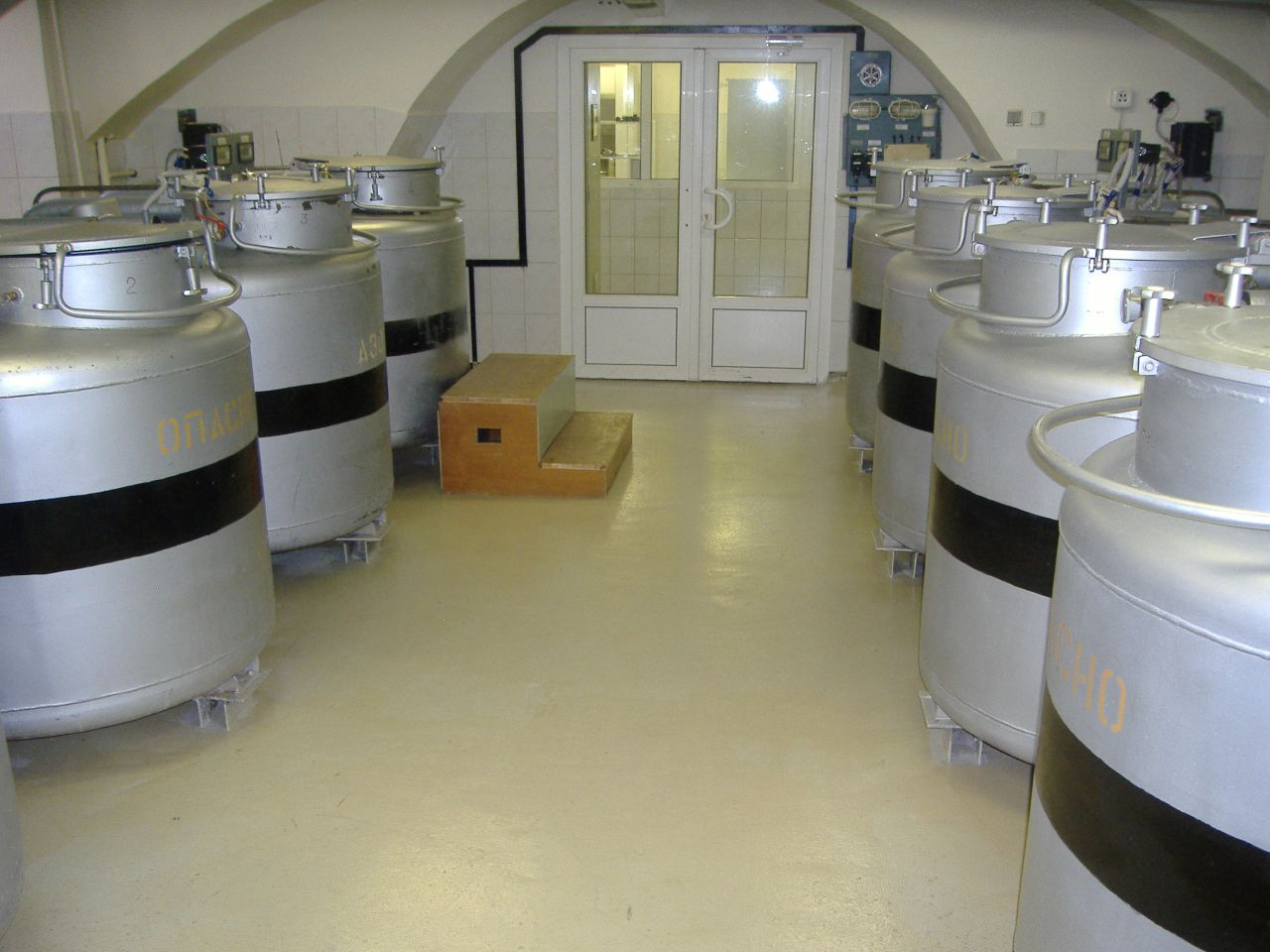 Cryotanks at VIR. The middle two on the right are the ones that are currently in use.